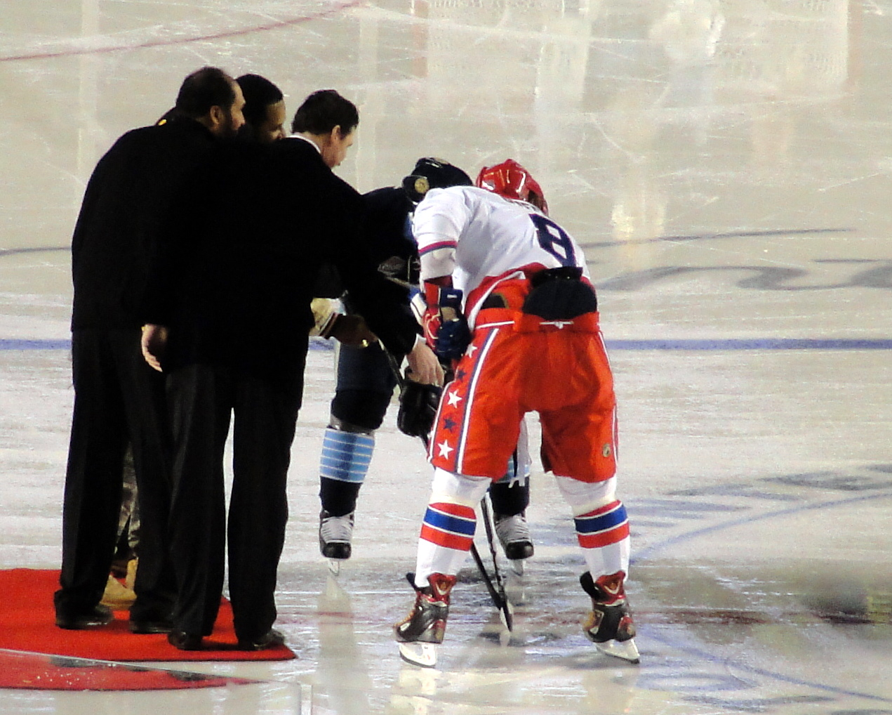 Franco Harris, Jerome Bettis and Mario Lemieux joined U.S. Army Sergeant First Class Bradley T. Tinstman for the ceremonial puck drop at the 2011 NHL Winter Classic, January 1, 2011 at Heinz Field in Pittsburgh, PA. Pittsburgh Penguins Captain Sidney Crosby and Washington Capitals Captain Alex Ovechkin took the draw.